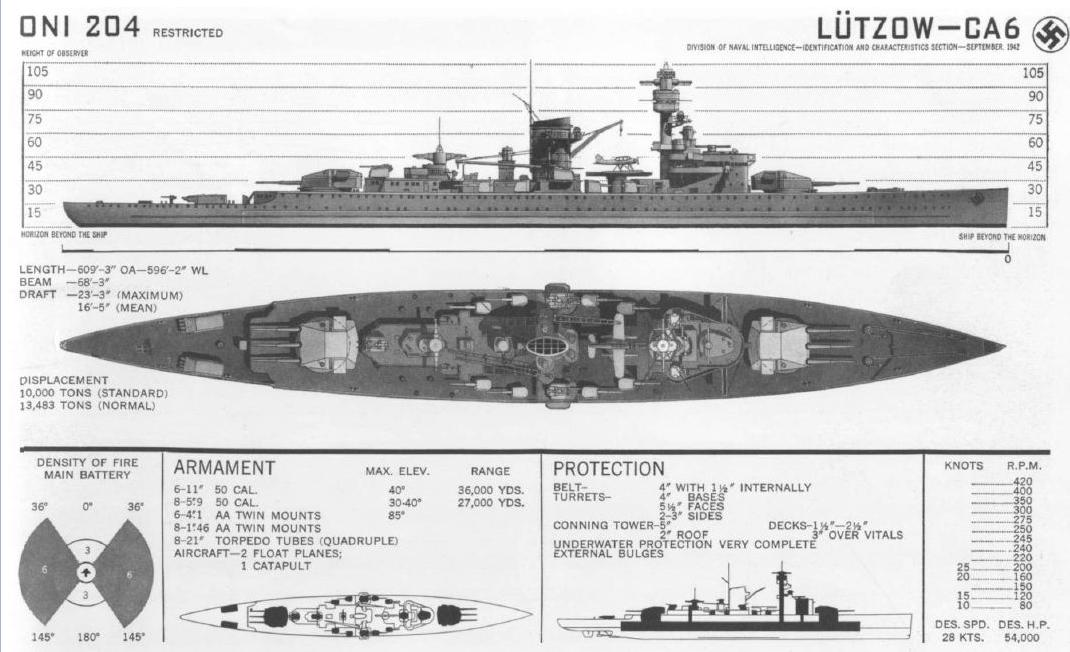 Wartime recognition drawing of the German cruiser Lützow, produced by the Office of Naval Intelligence in 1942.